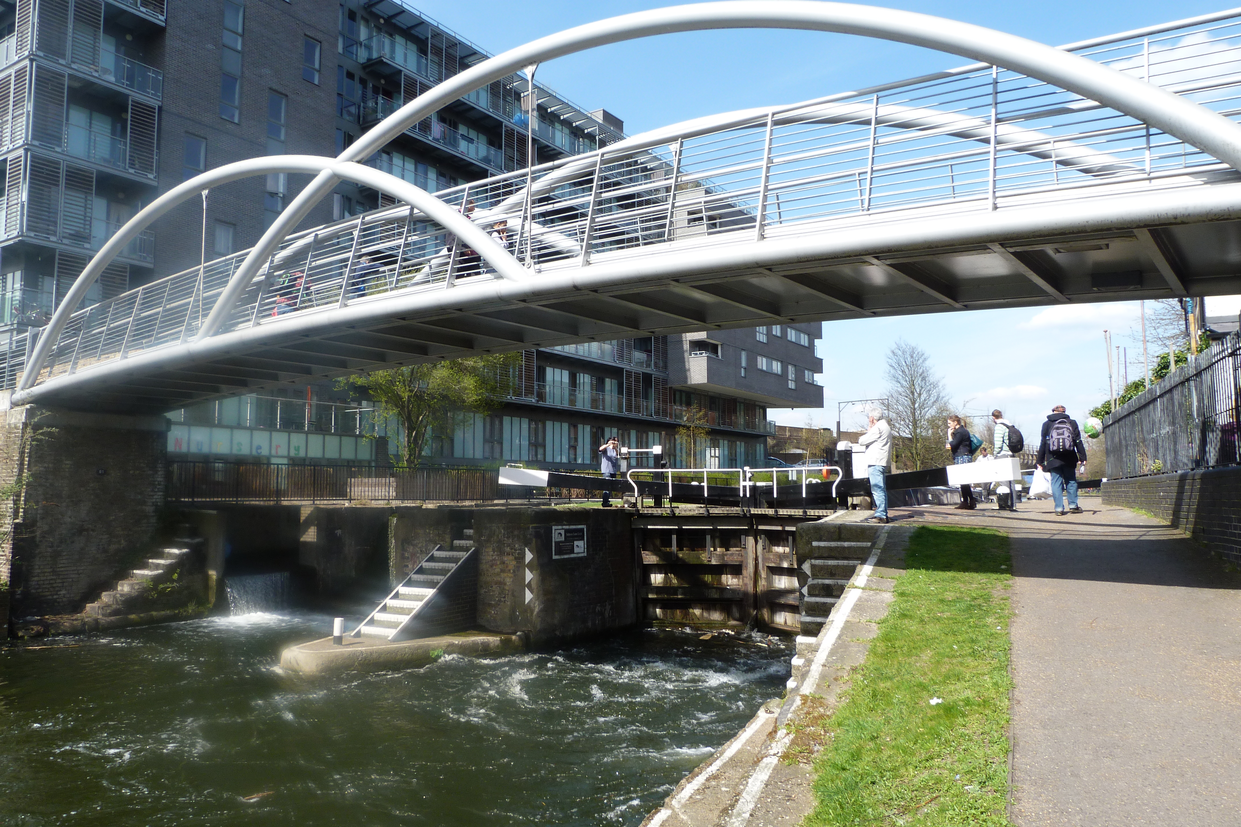 Salmon Lane lock operating. The paddles are being opened.